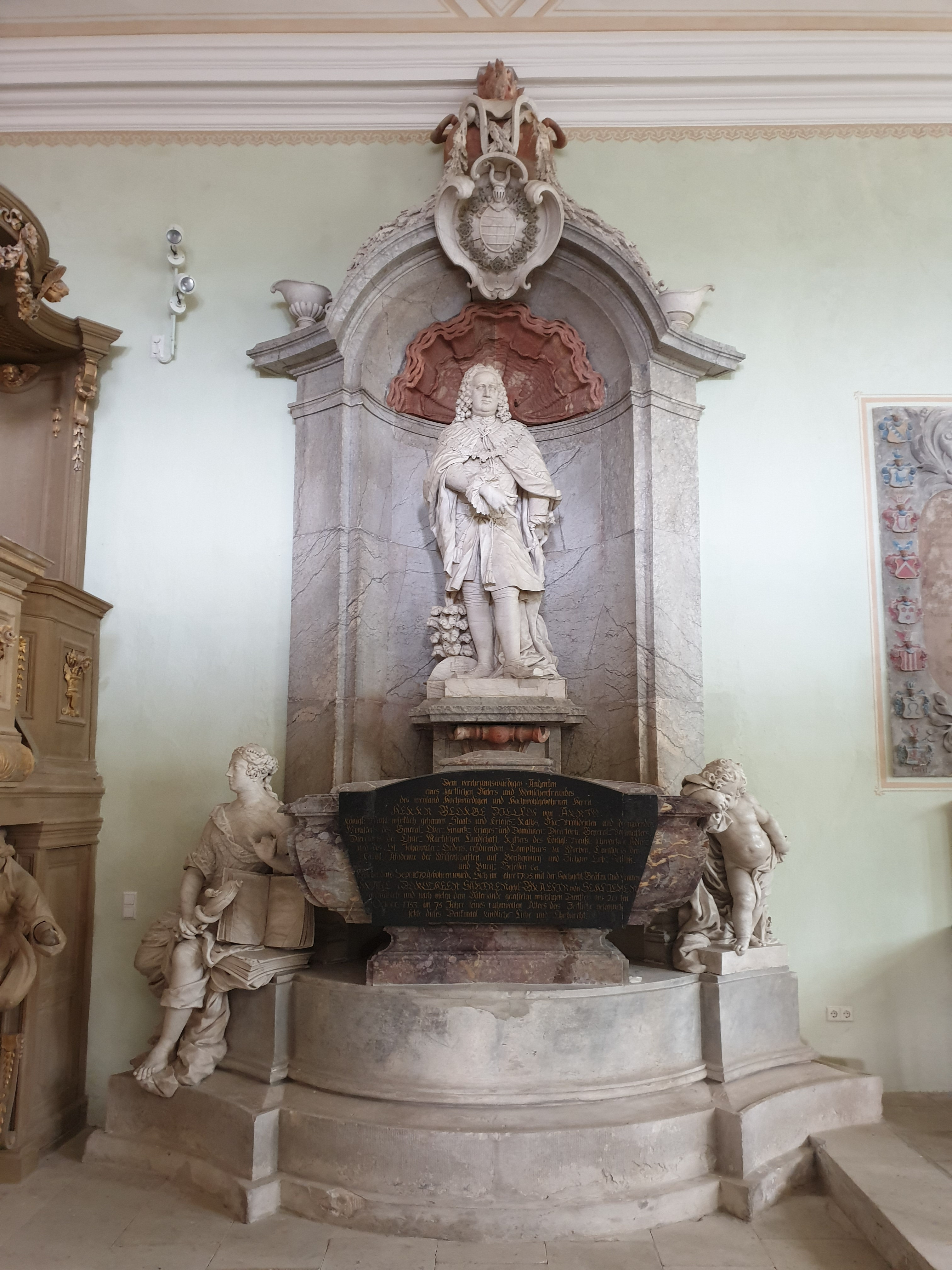 Memorial for Georg-Dietloff von Arnim adH Boitzenburg (1679 - 1753) in St. Marien auf dem Berge, Boitzenburg, Germany.